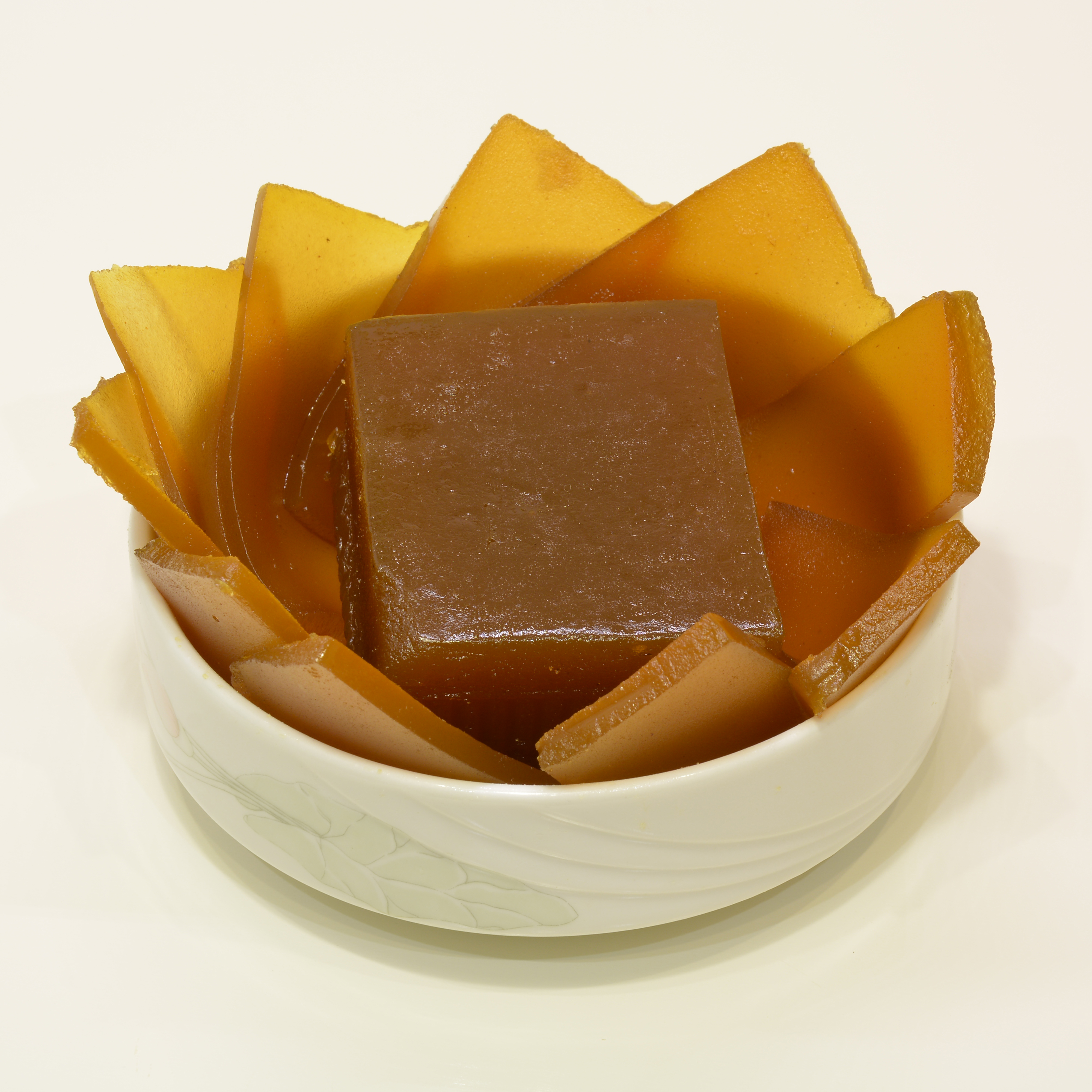 Apple marmalade, sliced. Marmalade is made from apples and sugar with added pectin.